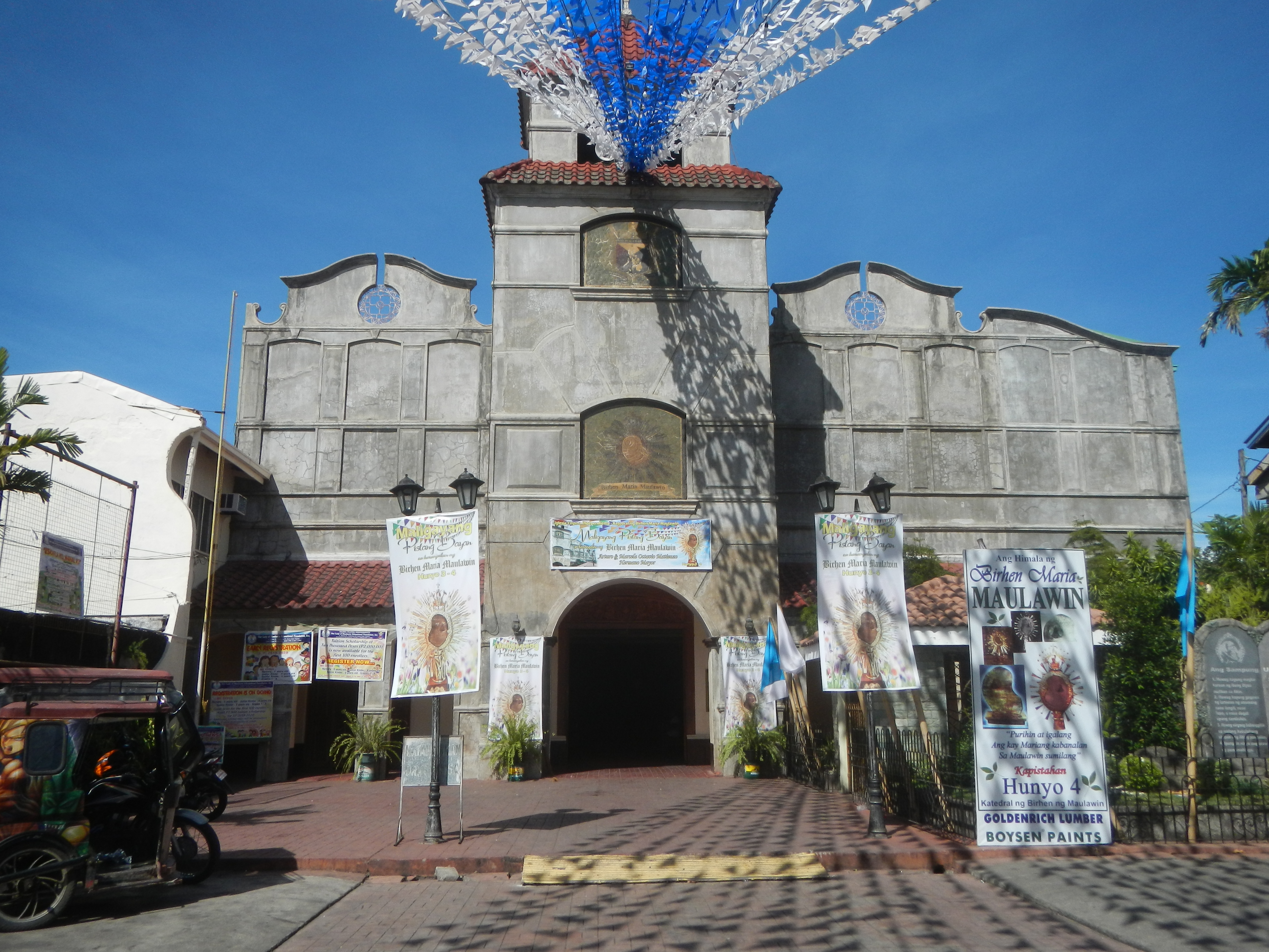 Cathedral of Our Lady of Maulawin Our Lady of Maulawin Nuestro Señor de Santo Sepulcro Ephraim Fajutagana Santo Angel Santa Cruz (Laguna) Water District Vitex parviflora Mount Sembrano Chapel of Our Lady of the Rosary of Manaoag - Villa Mary Lim Yan San Pablo Sur, Santa Cruz, Laguna List of barangays in Laguna (province) Barangays Poblacion I, Poblacion II, Poblacion III, Poblacion IV & Poblacion V, Santa Cruz, Laguna 14.2786, 121.4173 San Pablo Sur, Santa Cruz, Laguna 14.2849, 121.4250 Santa Cruz, Laguna from or along the Calamba-Santa Cruz-Famy Junction Road which was declared a national road by the Chief Executive (Executive Order No. 71, series of 1936, as amended by Executive Order No. 311, series of 1940) Manila East Road interconnecting with Calamba–Pagsanjan Road Philippine highway network (Note: Judge Florentino Floro, the owner, to repeat, Donor Florentino Floro of all these photos hereby donate gratuitously, freely and unconditionally Judge Floro all these photos to and for Wikimedia Commons, exclusively, for public use of the public domain, and again without any condition whatsoever).